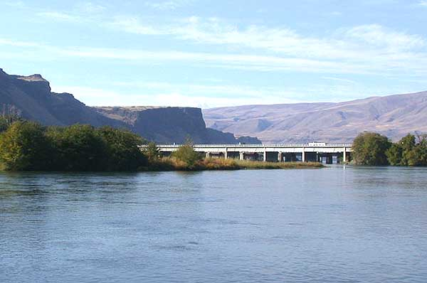 Deschutes River near its mouth on the Columbia River, in Deschutes River State Recreation Area (taken Oct. 20, 2004)